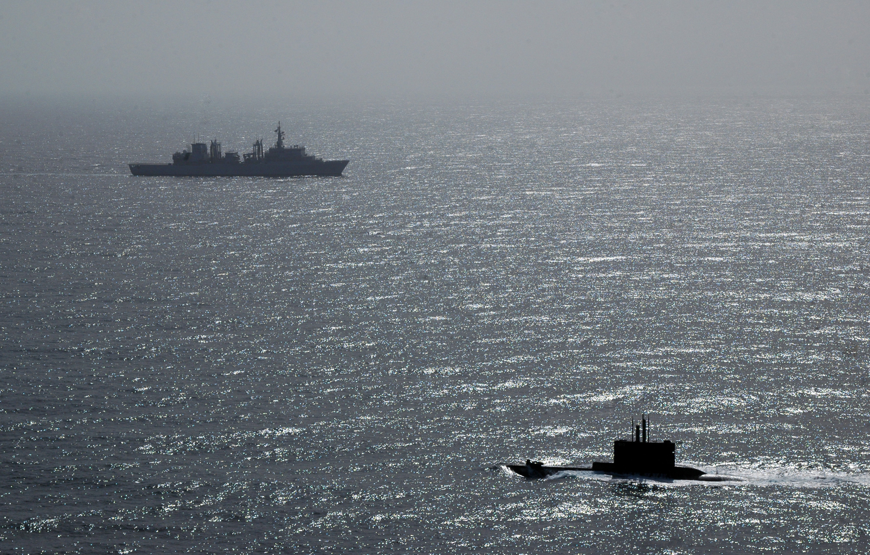 MEDITERRANEAN SEA (Feb. 17, 2011) NATO ships and aircraft force the Greek navy submarine HS Protefs (S 113) to surface off the coast of Sicily during Exercise Proud Manta. Proud Manta is an air, surface, and subsurface NATO training exercise. (Italian navy photo/Released)